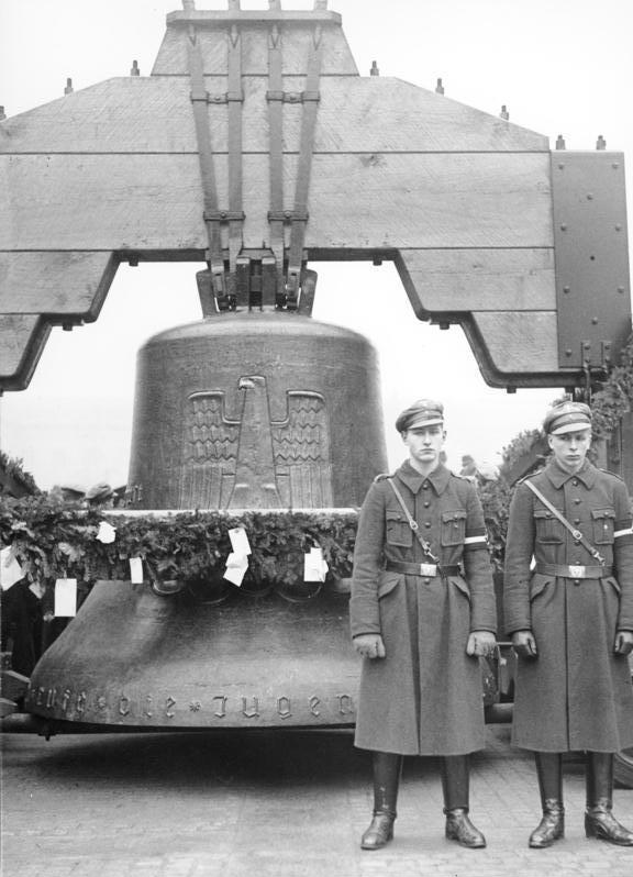 Berlin Olympiaglocke 1936